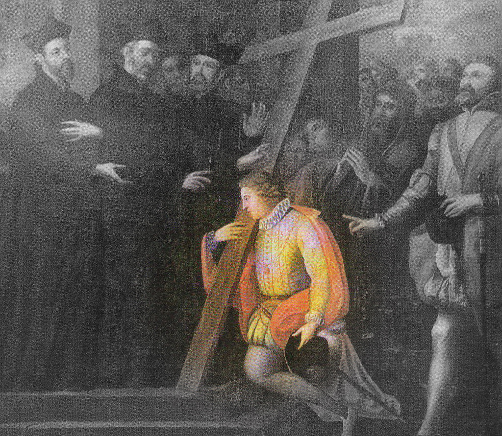 Alexander Sauli accepts the cross in milan